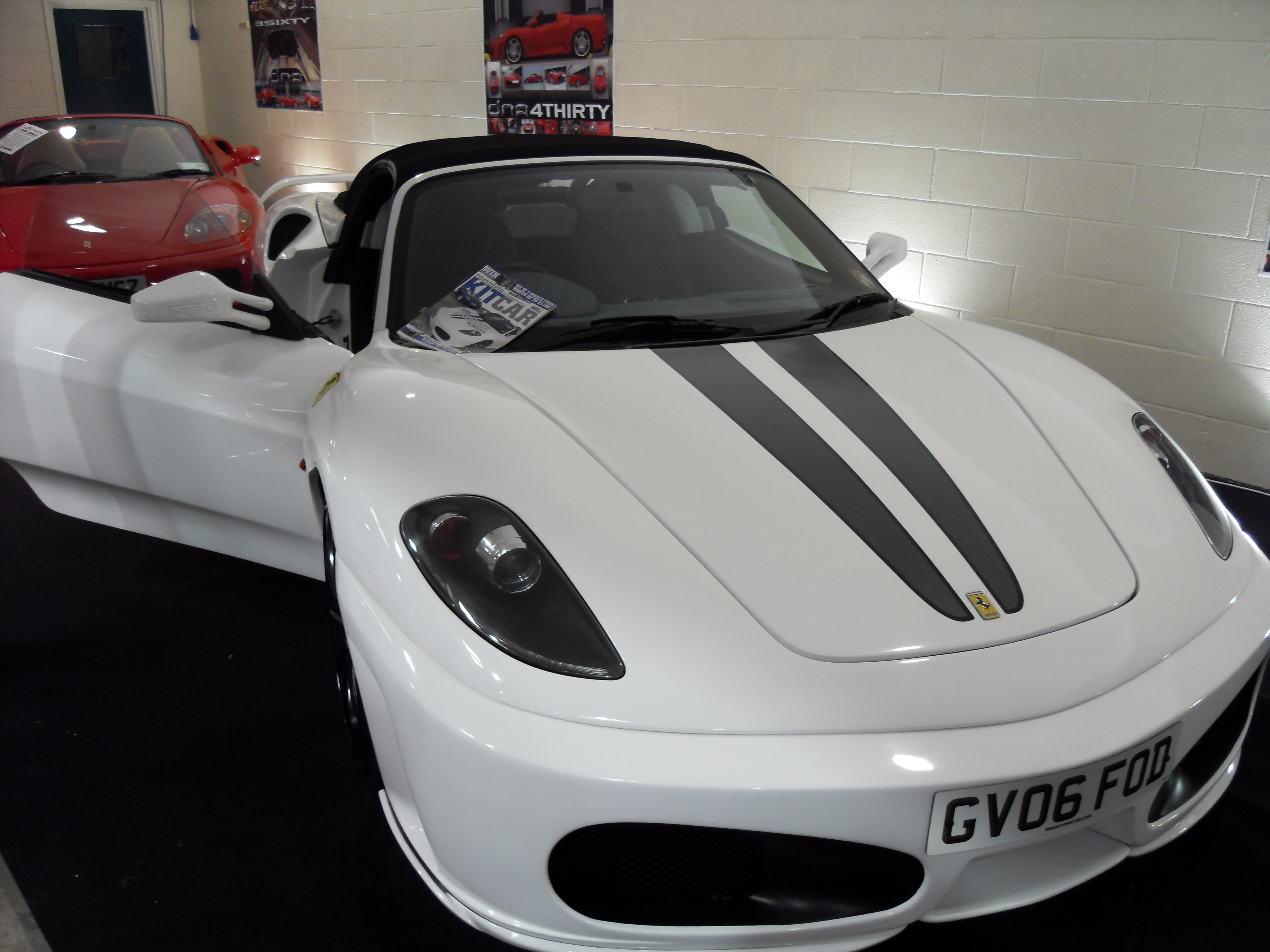 National Kit Car Show Stoneleigh 2011